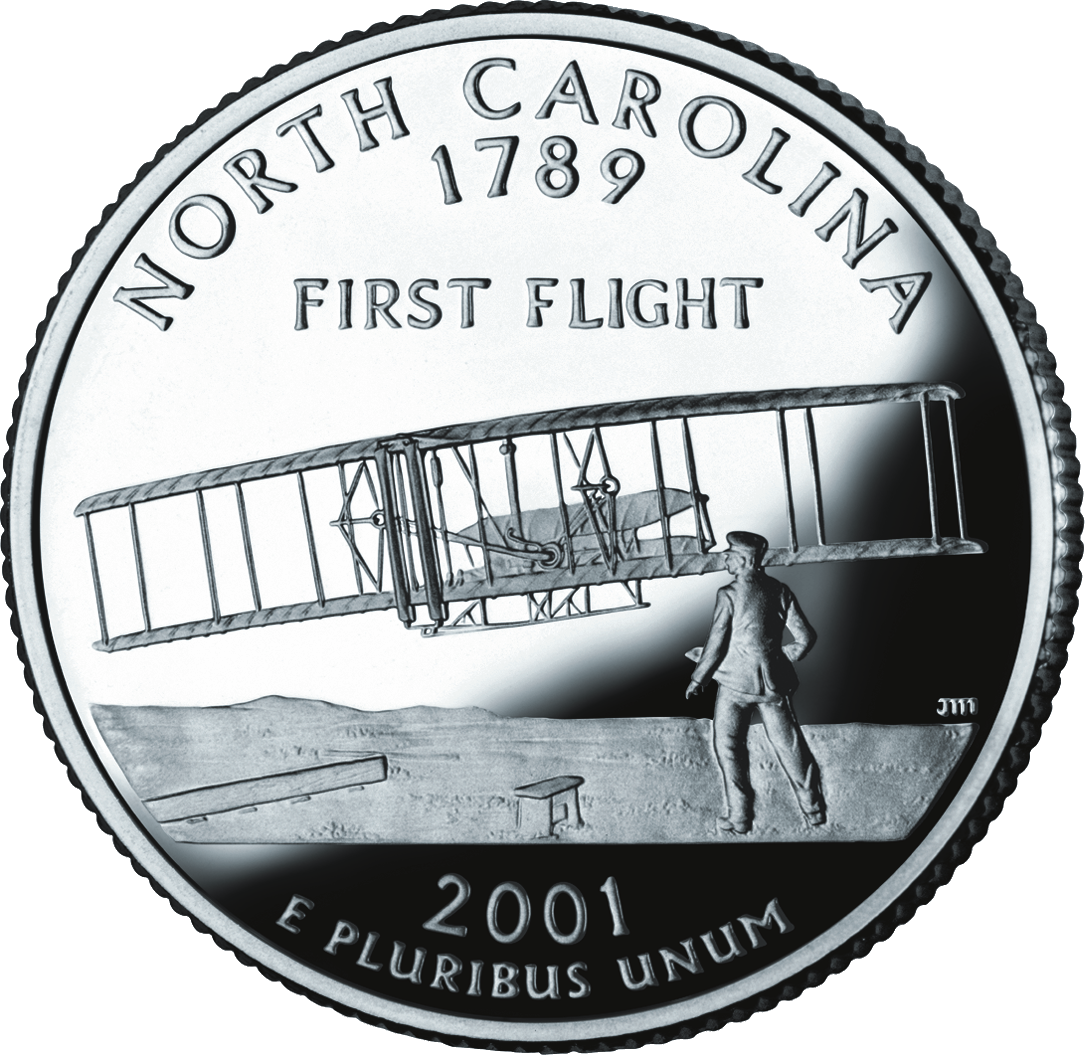 Removed background, cropped, and converted to PNG with Macromedia Fireworks. This image depicts a unit of currency issued by the United States of America. If Fraudulent use of this image is punishable under applicable counterfeiting laws. As listed by the United States Secret Service at money illustrations, the Counterfeit Detection Act of 1992, Public Law 102-550, in Section 411 of Title 31 of the Code of Federal Regulations (31 CFR 411), permits color illustrations of U.S. currency provided:1. The illustration is of a size less than three-fourths or more than one and one-half, in linear dimension, of each part of the item illustrated;2. The illustration is one-sided; and3. All negatives, plates, positives, digitized storage medium, graphic files, magnetic medium, optical storage devices, and any other thing used in the making of the illustration that contain an image of the illustration or any part thereof are destroyed and/or deleted or erased after their final use. Certain coins contain copyrights licensed to the U.S. Mint and owned by third parties or assigned to and owned by the U.S. Mint [1]. For the United States Mint circulating coin design use policy, see [2]; for the policy on the 50 State Quarters, see [3]. Also: COM:ART #Photograph of an old coin found on the Internet